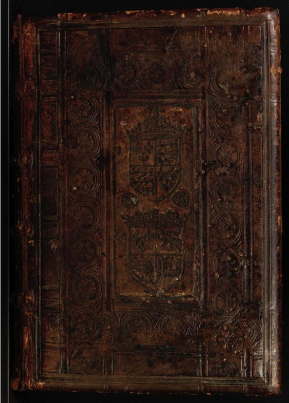 The Llanbeblig Hours binding